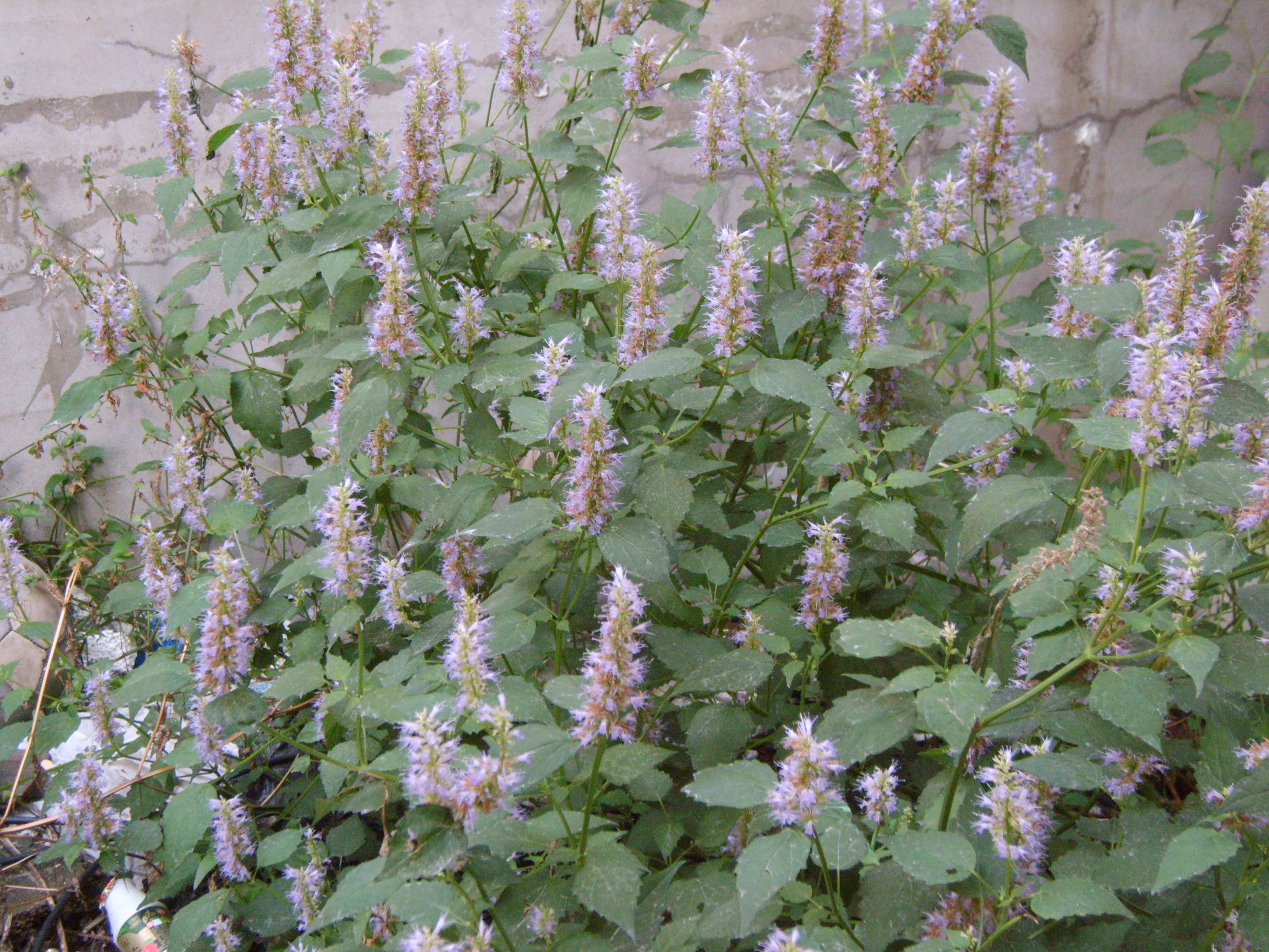 Agastache rugosa in Bupyung, Korea